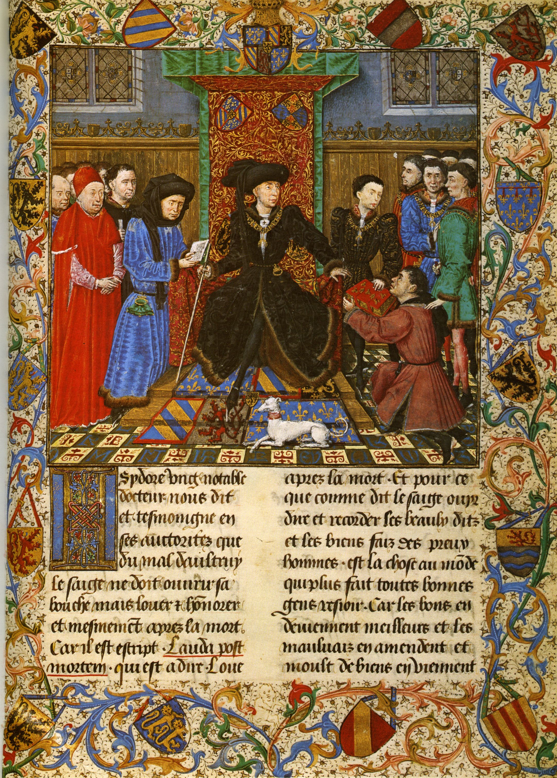 Romance of Girart de Roussillon. Script: Burgundian Bastarda. Vienna, Österreichische Nationalbibliothek, Cod. 2549, fol. 6r.